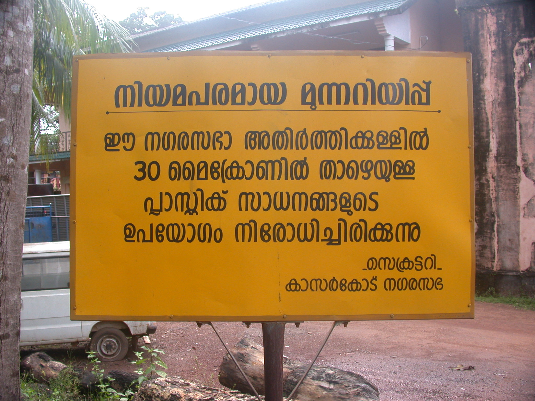 A notice board in Malayalam informing people that using polythene bags of below 30 microns is prohibited in the Kasaragod municipality limit.